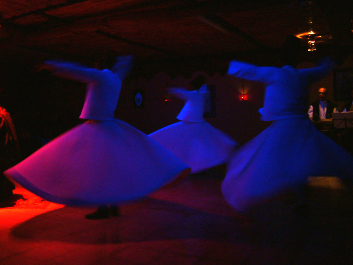 Whirling Dervishes performing near Mevlana in Konya, Turkey